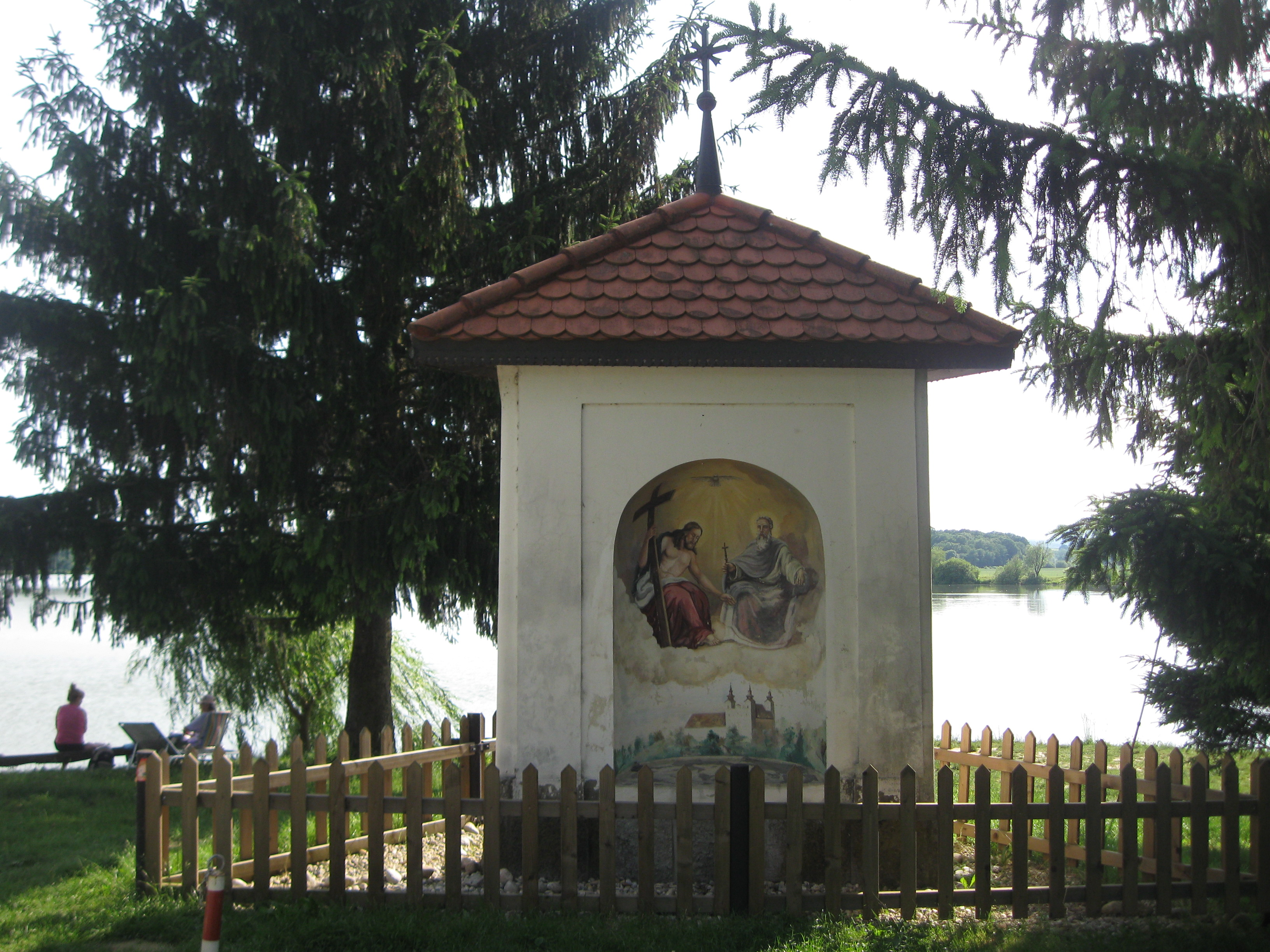 Chapel at Trojica lake in Slovenskih goricah.